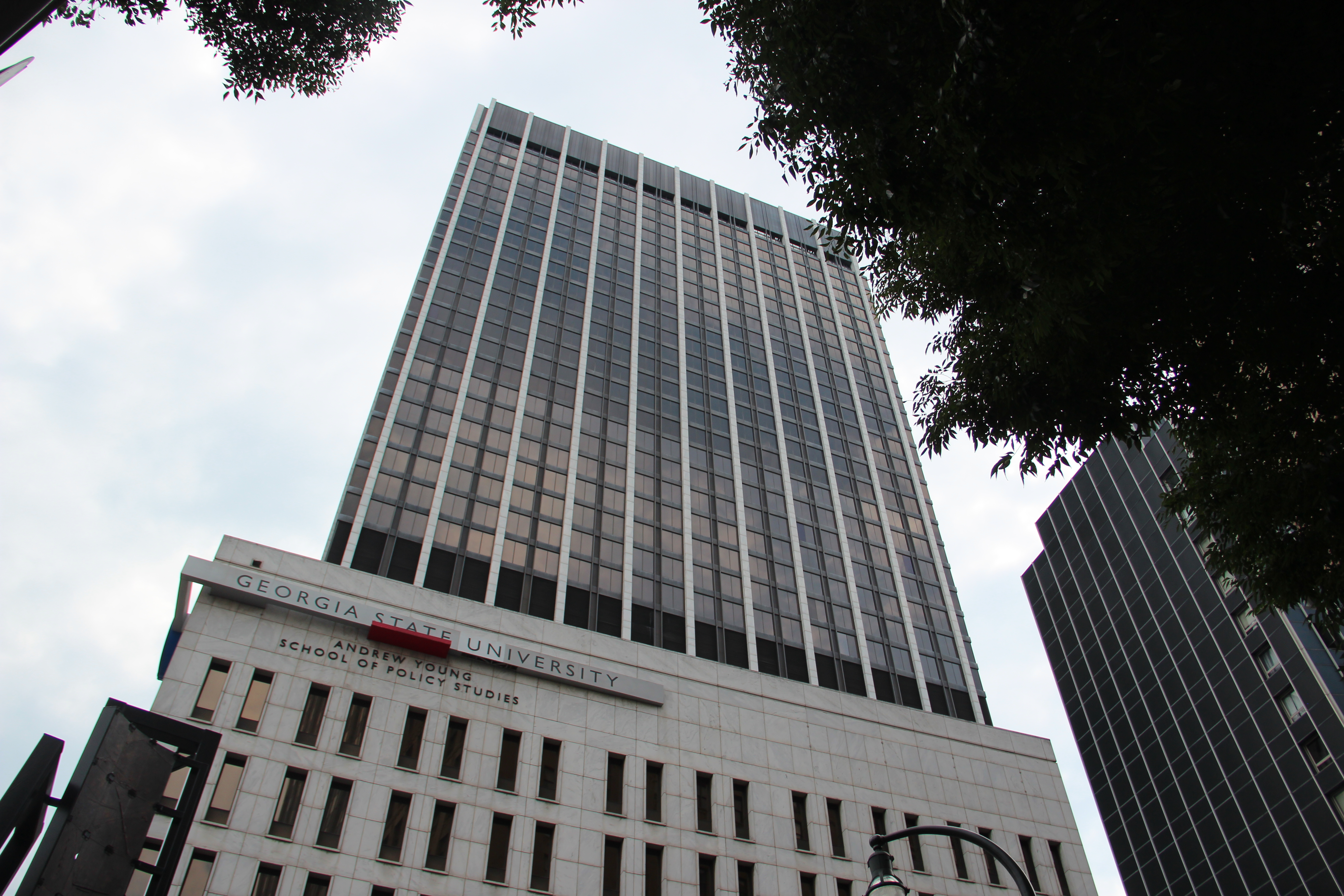 2 Peachtree Street